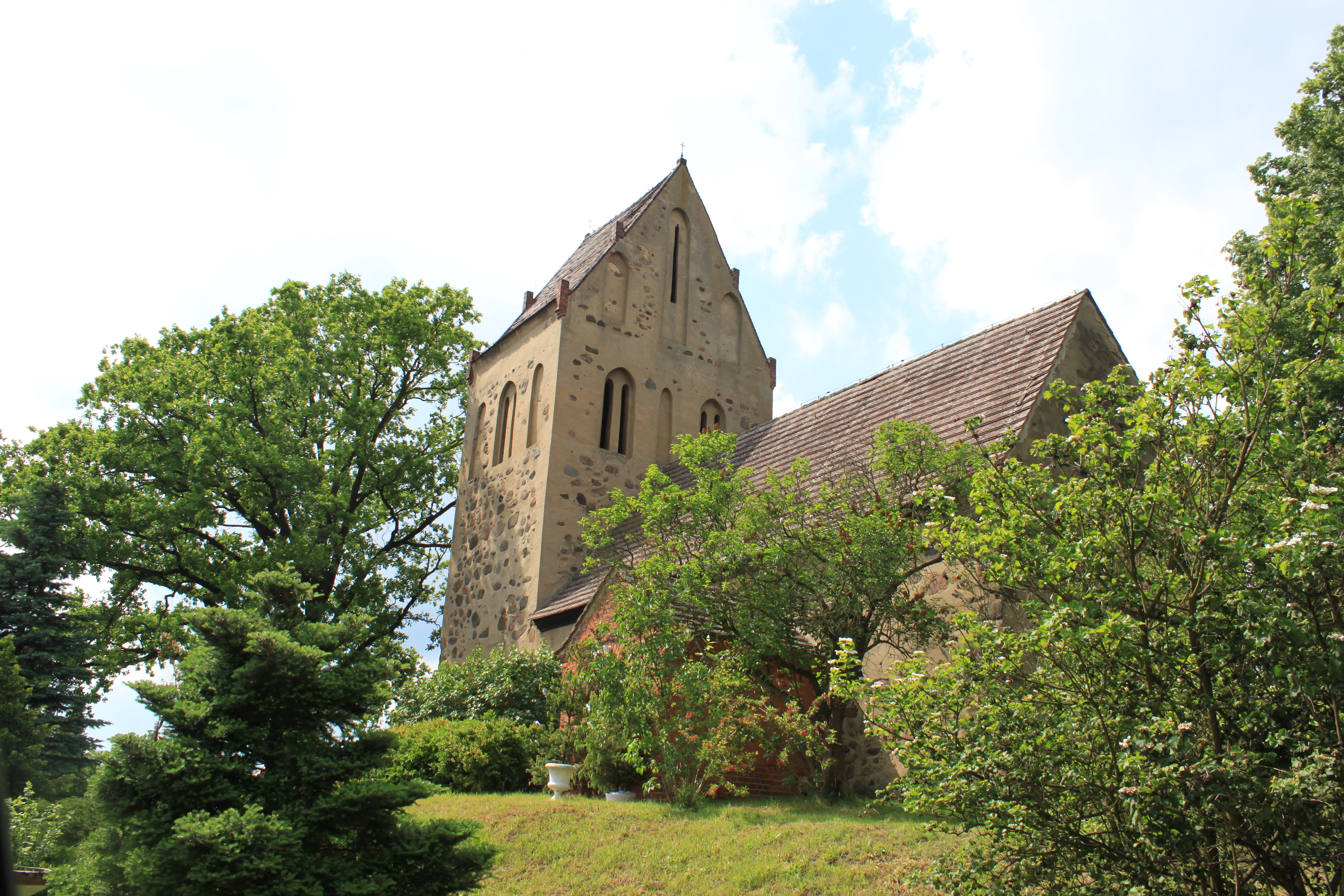 Proßmarke